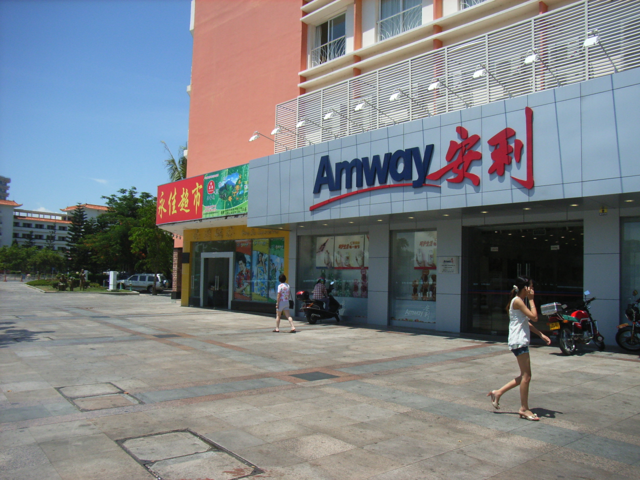 An Amway shop — in Sanya, Hainan Province, Southeast China. Credits User:HNPIX